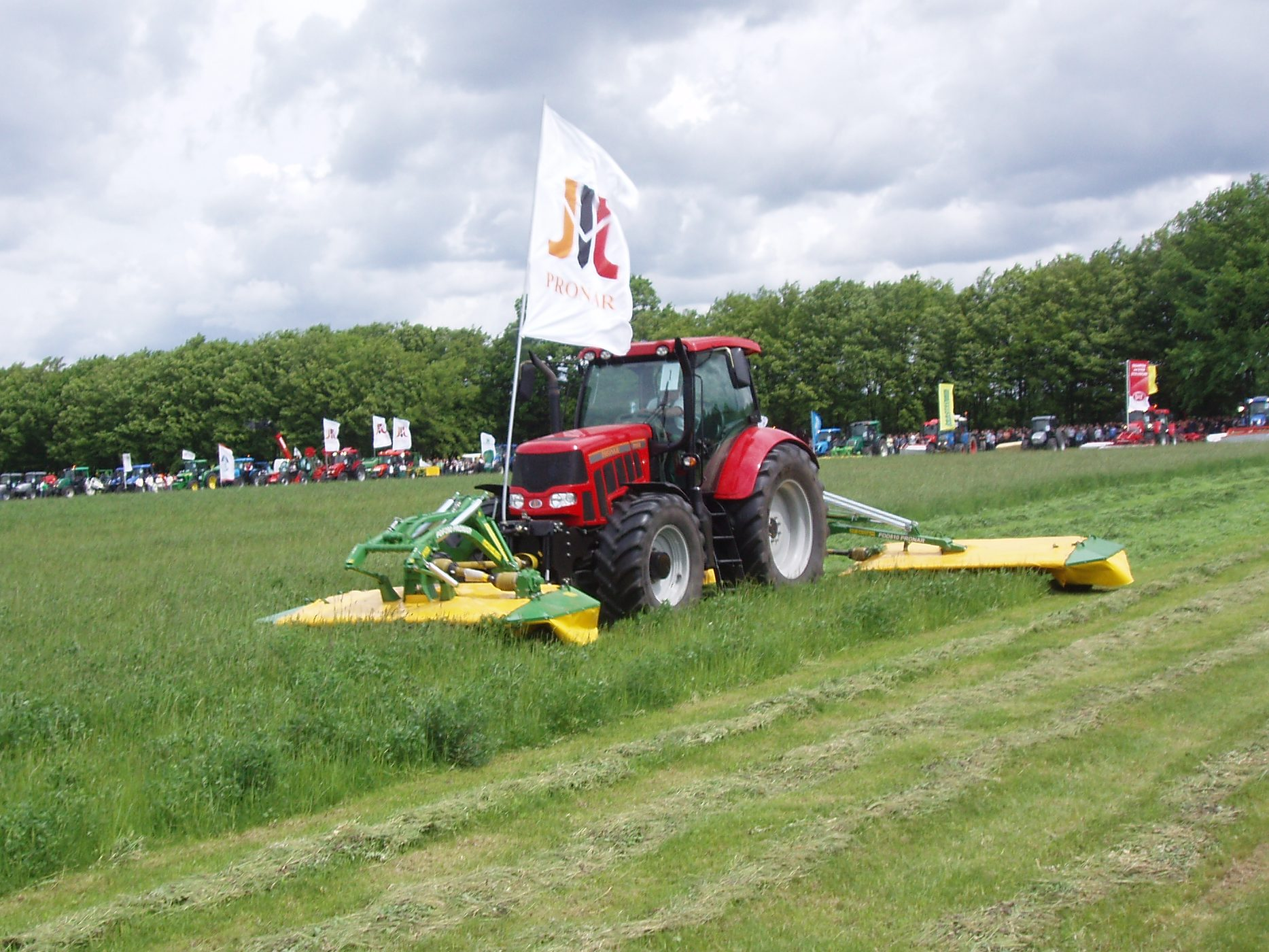 Pronar 7150 tractor -(Pronar is a polish tractor manufacturer)